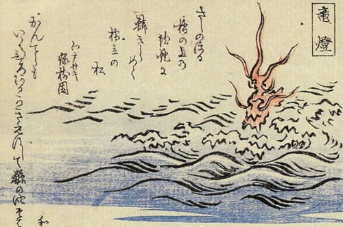 Ryūtō from Kyōka Hyaku Monogatari